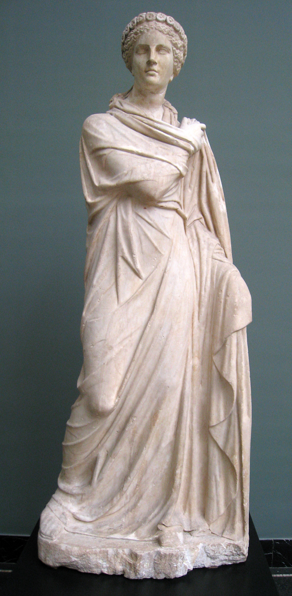 Marble statue of Polyhymnia from Monte Calvo in Italy. 2nd century AD. From the collection of the Ny Carlsberg Glyptotek. Item number IN 1547.